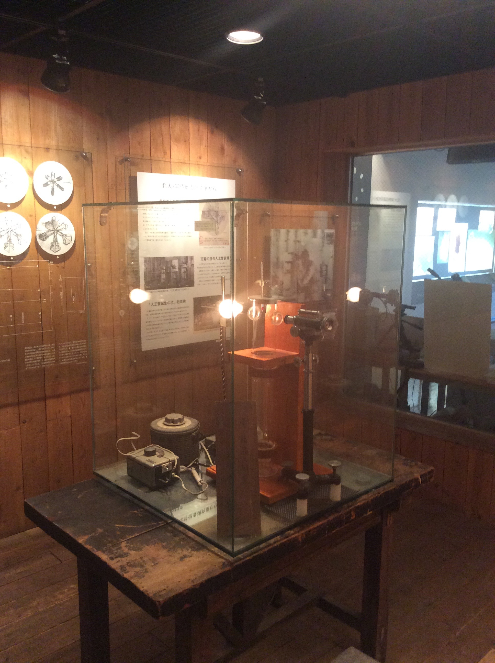 Nakaya Ukichiro Museum of Snow and Ice. Showing an original equipment for in vitro generation of snowflake. Photographed with permission.